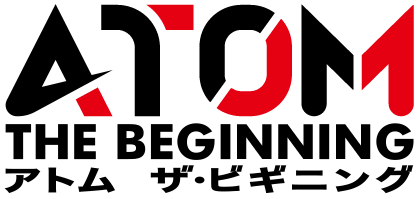 Atom: The Beginning logo